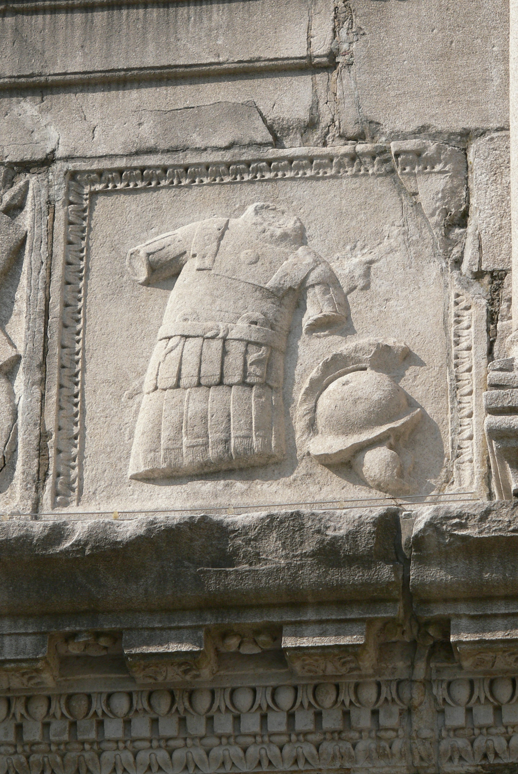 Trieste ( Italy ). Cathedral: Ancient Roman trophy ( 1st century ) at the bell tower.